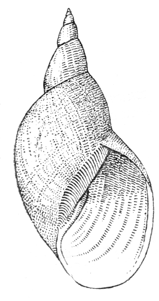 drawing of the shell of Lymnaea stagnalis